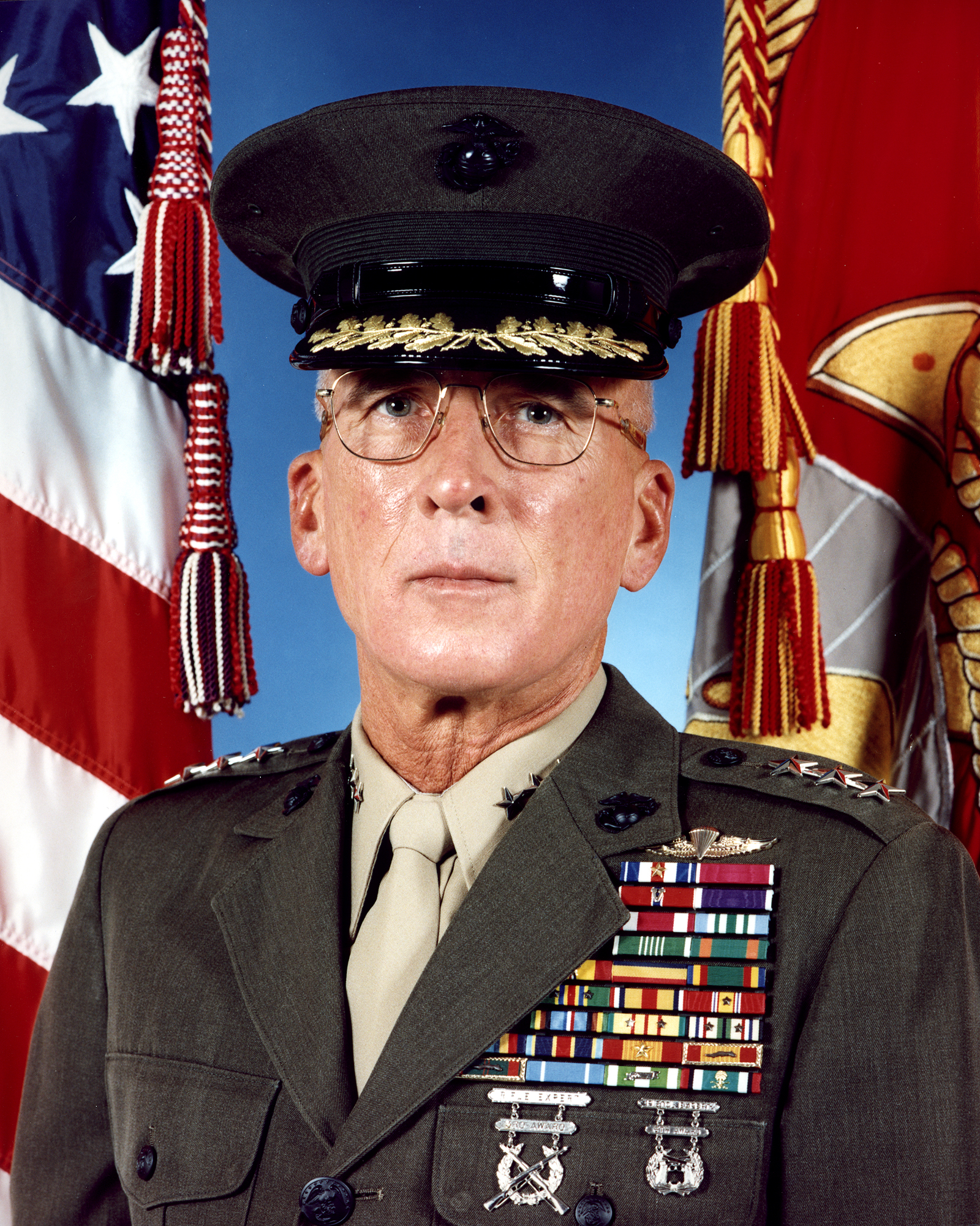 LtGen Paul K. Van Riper, USMC (retired).